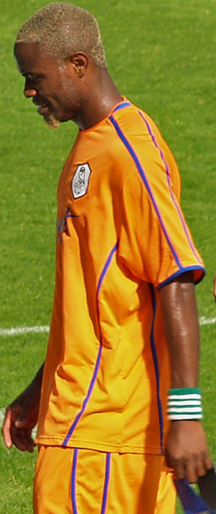 Akpo Sodje. Image cropped from original at flickr.